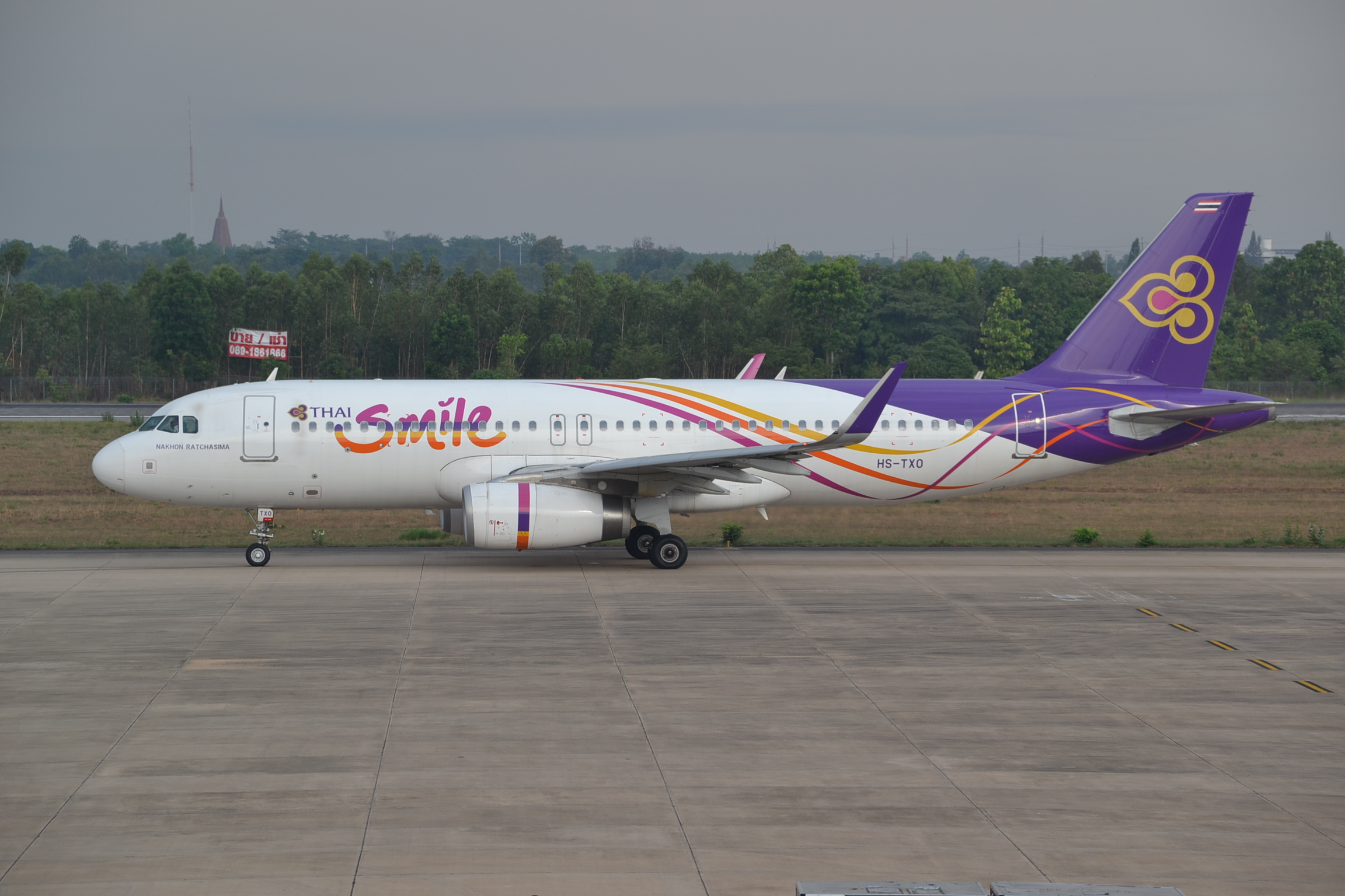 Airbus A320(SL) of Thai Smile at Khon Kaen- KKC, Thailand,29/03/15.